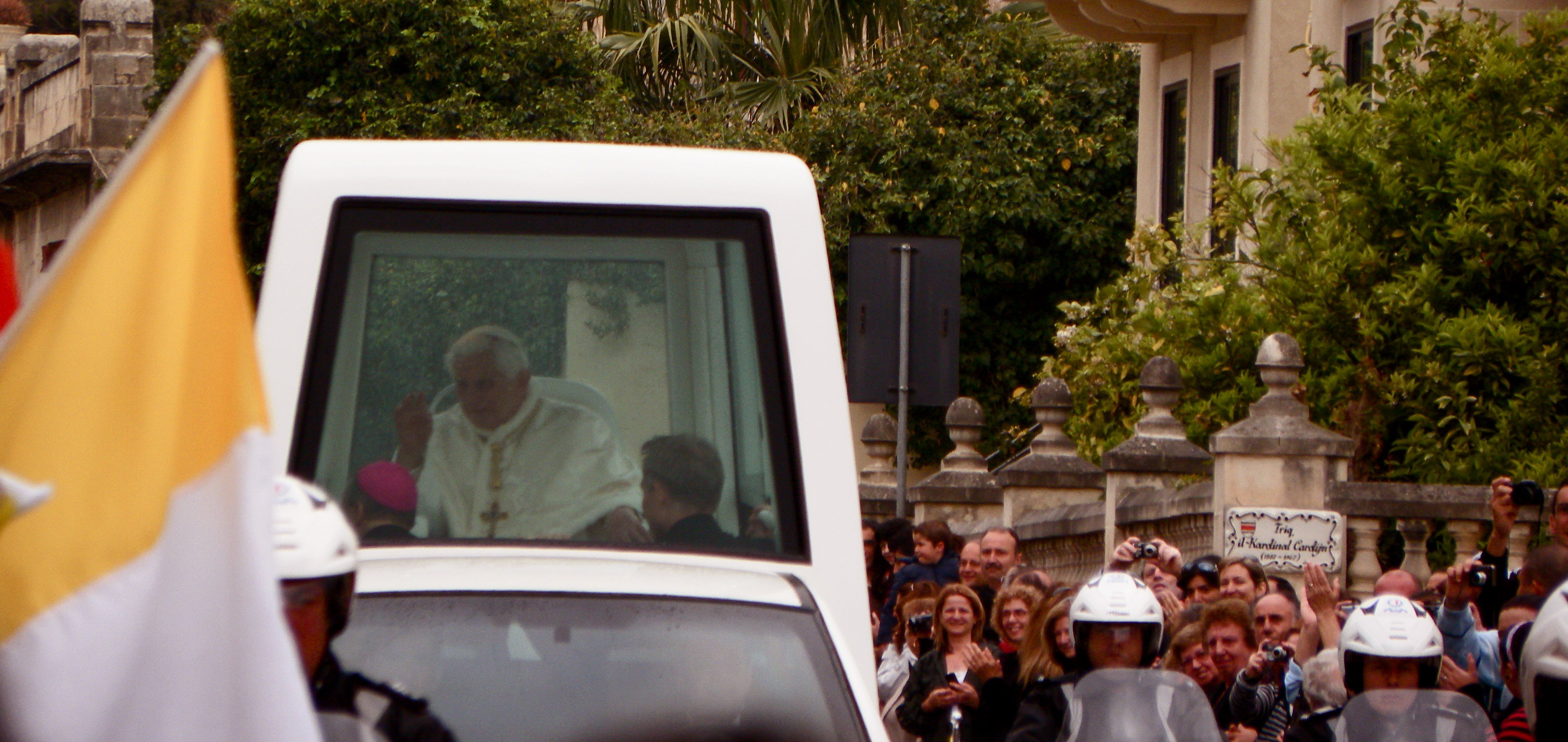 His Holiness pope Benedict XVI passing through Balzan a small village in Malta